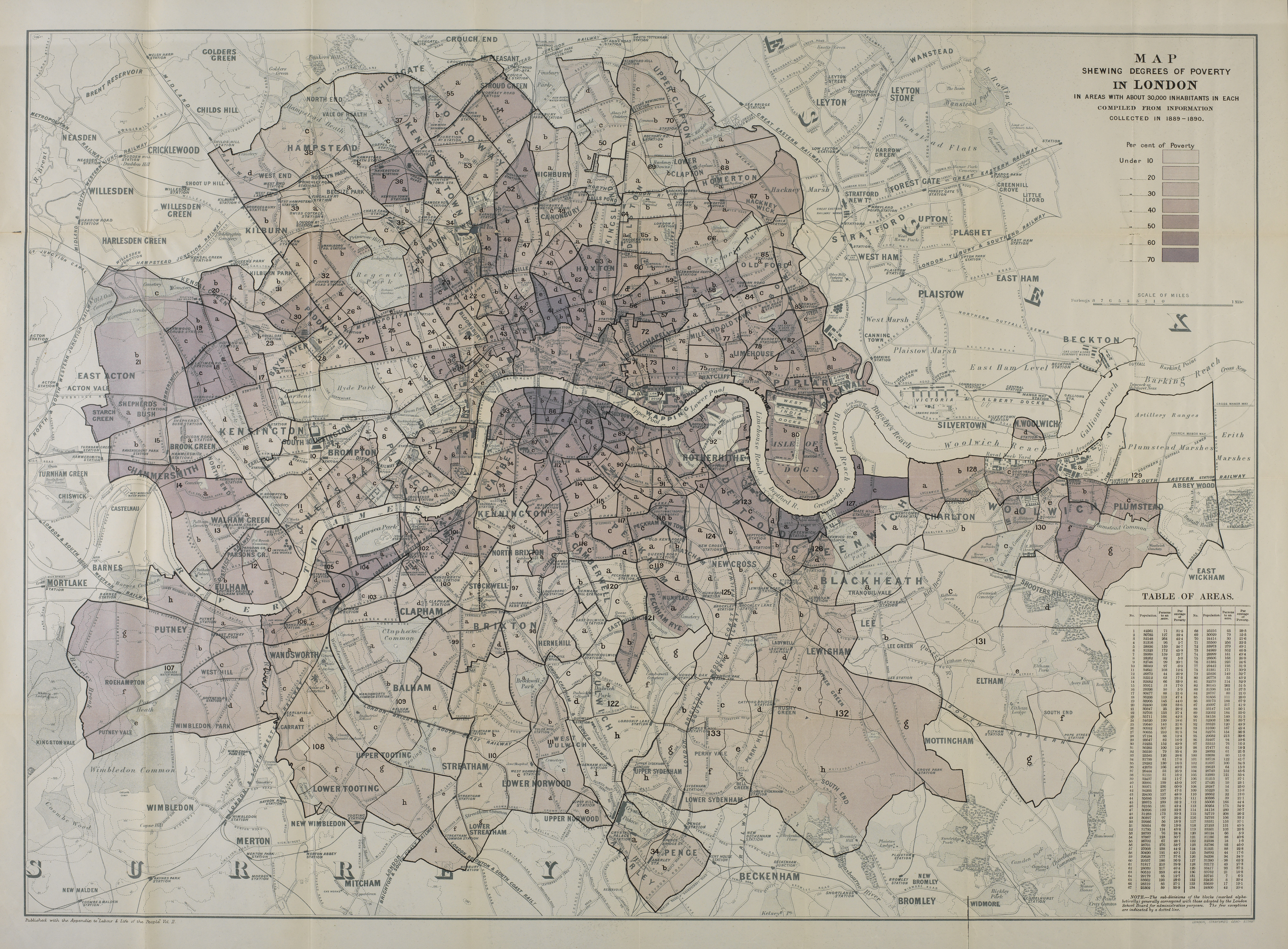 Descriptive map of London poverty, 1889 (showing degrees of poverty in London). Charles Booth, Life and labour of the people in London. General Collections Keywords: Social Conditions; Charles Booth; LABOUR; Poverty; Population Characteristics